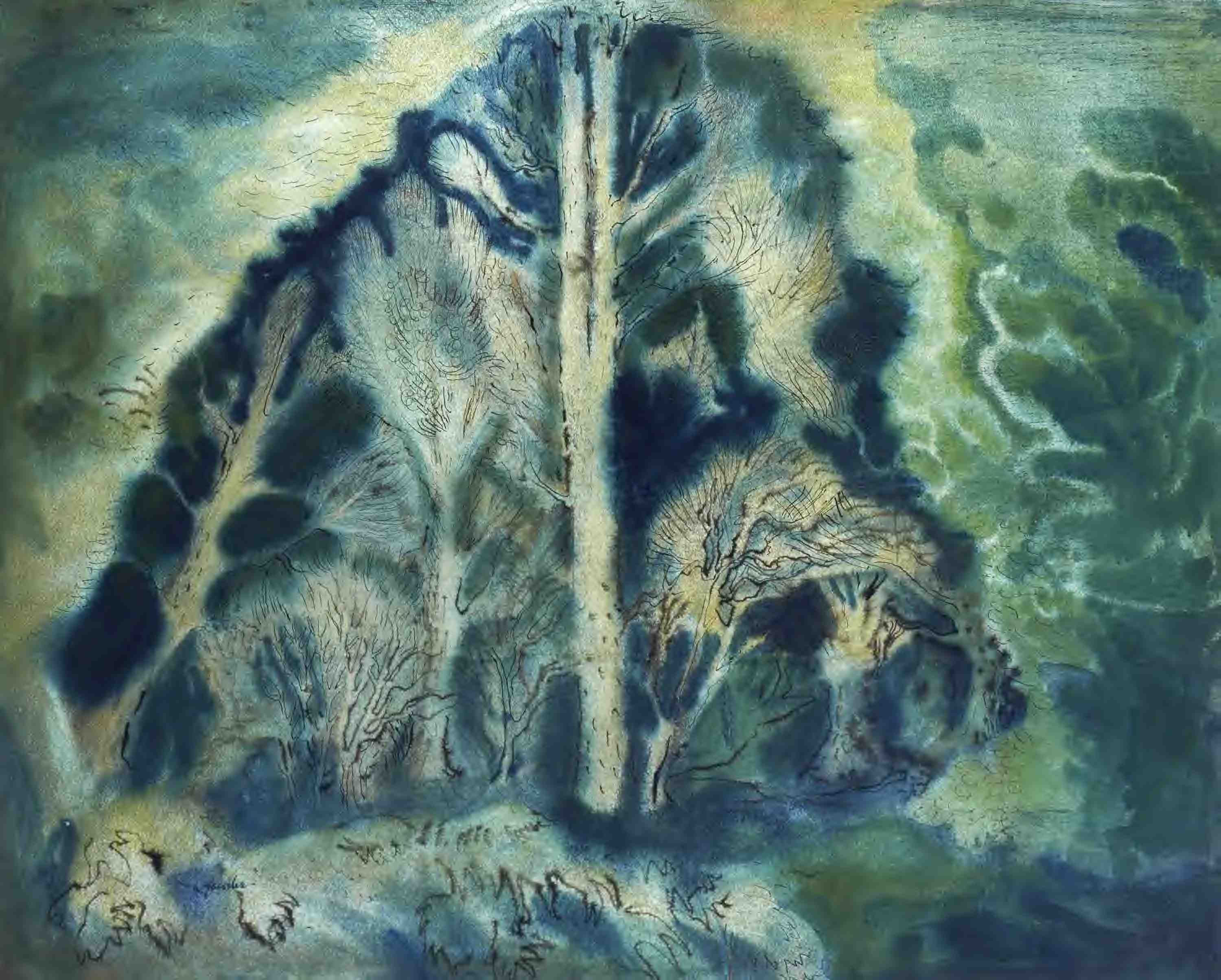 William Geissler, Dead Trees 1944, watercolour and ink.